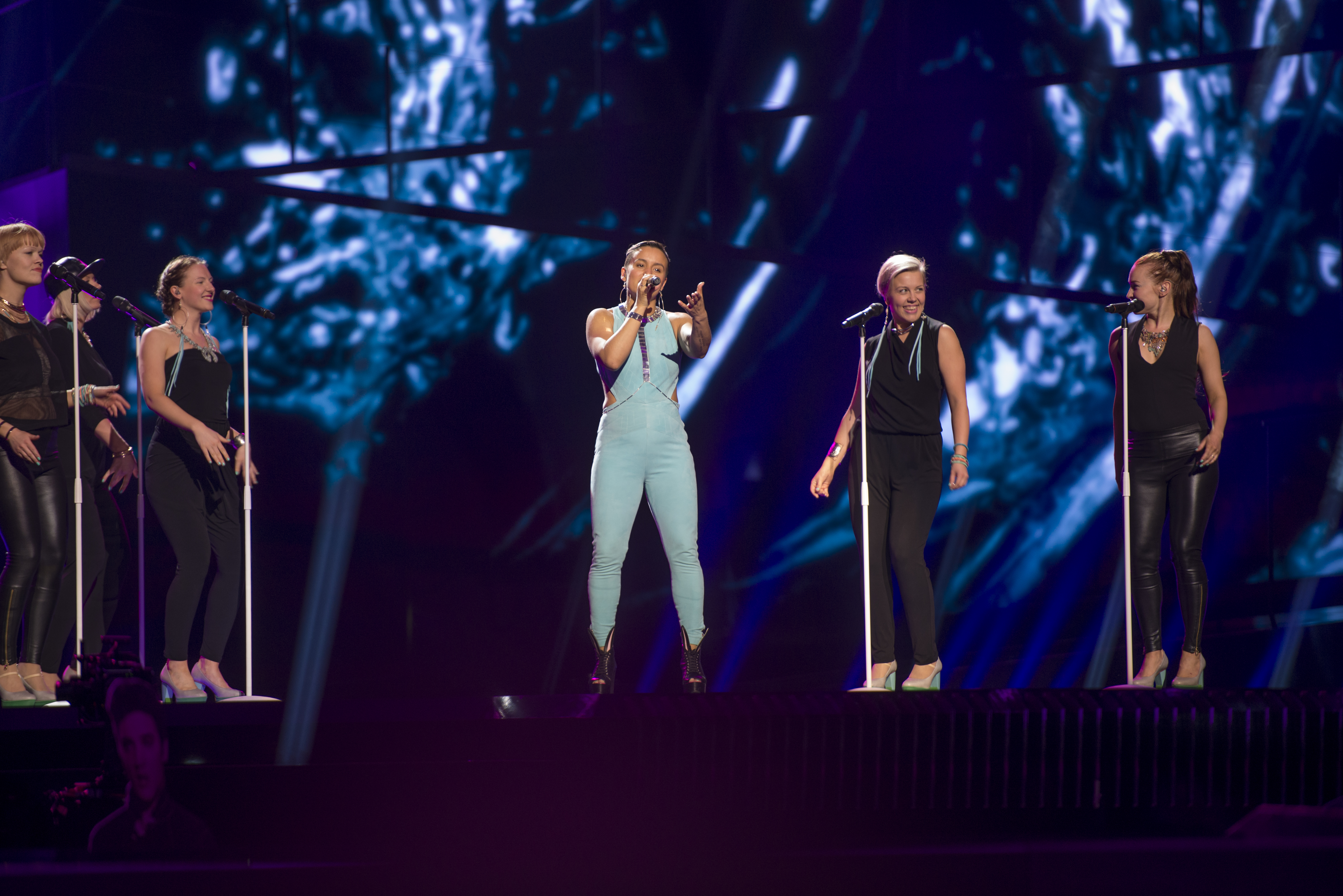 Sandhja representing Finland with the song "Sing It Away" during a rehearsal before the first semi final of the Eurovision Song Contest 2016 in Stockholm. (Help translate this text)